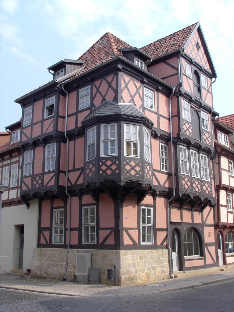 The half-timbred house called "Börse" (stock exchange) in Quedlinburg